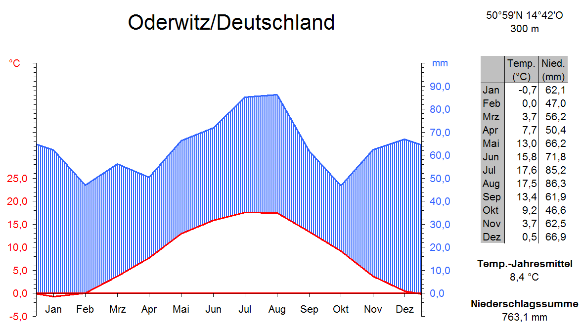 Climate chart in the format by Walther and Lieth, metric, °Celsisus and millimeters. Raw data was taken from RaKliDa, the saxonian climate data collection. Data was taken from 1976 to 2005.